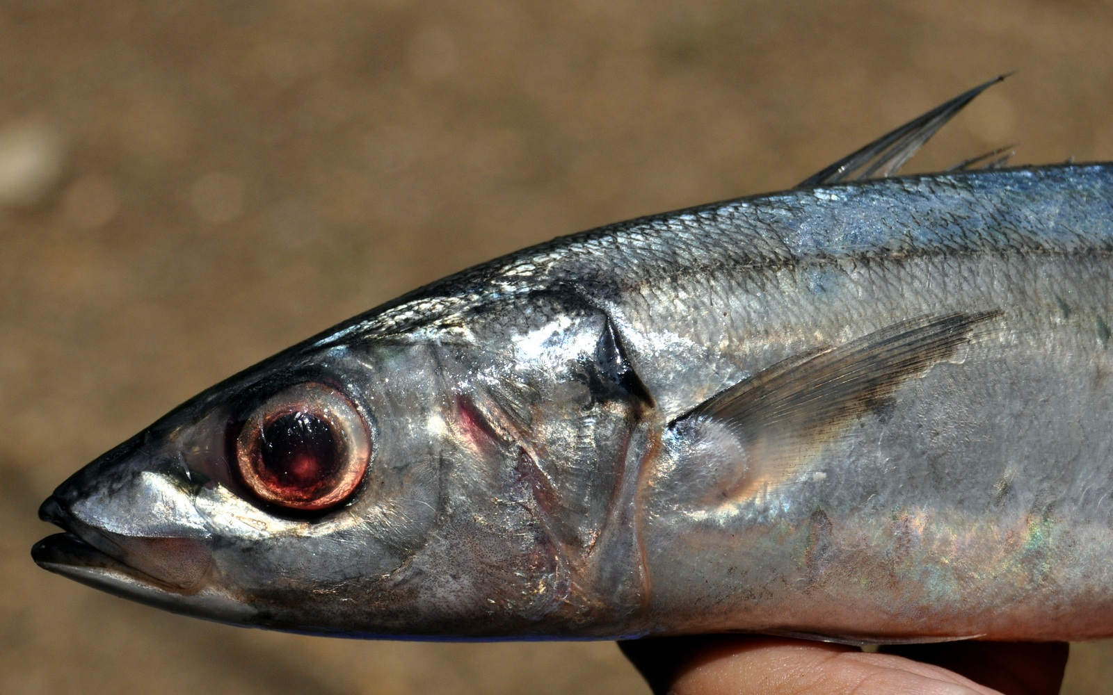 Decapterus macarellus from traditional market in Bogor, West Java, Indonesia. Head region.